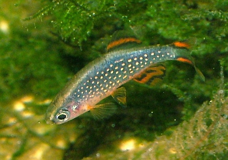 Danio margaritatus male, also (incorrectly) known as Celestichthys margaritatus or Galaxy rasbora